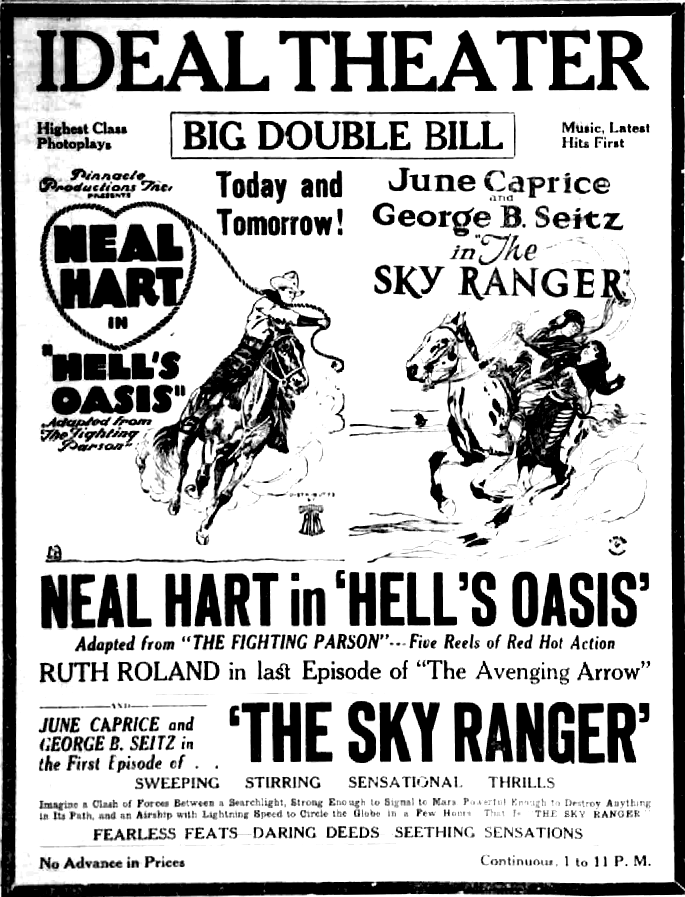 Double bill for Hell's Oasis (1920) and the serial film The Sky Ranger (1921) (later retitled as The Man Who Stole the Moon). Newspaper advertisement.